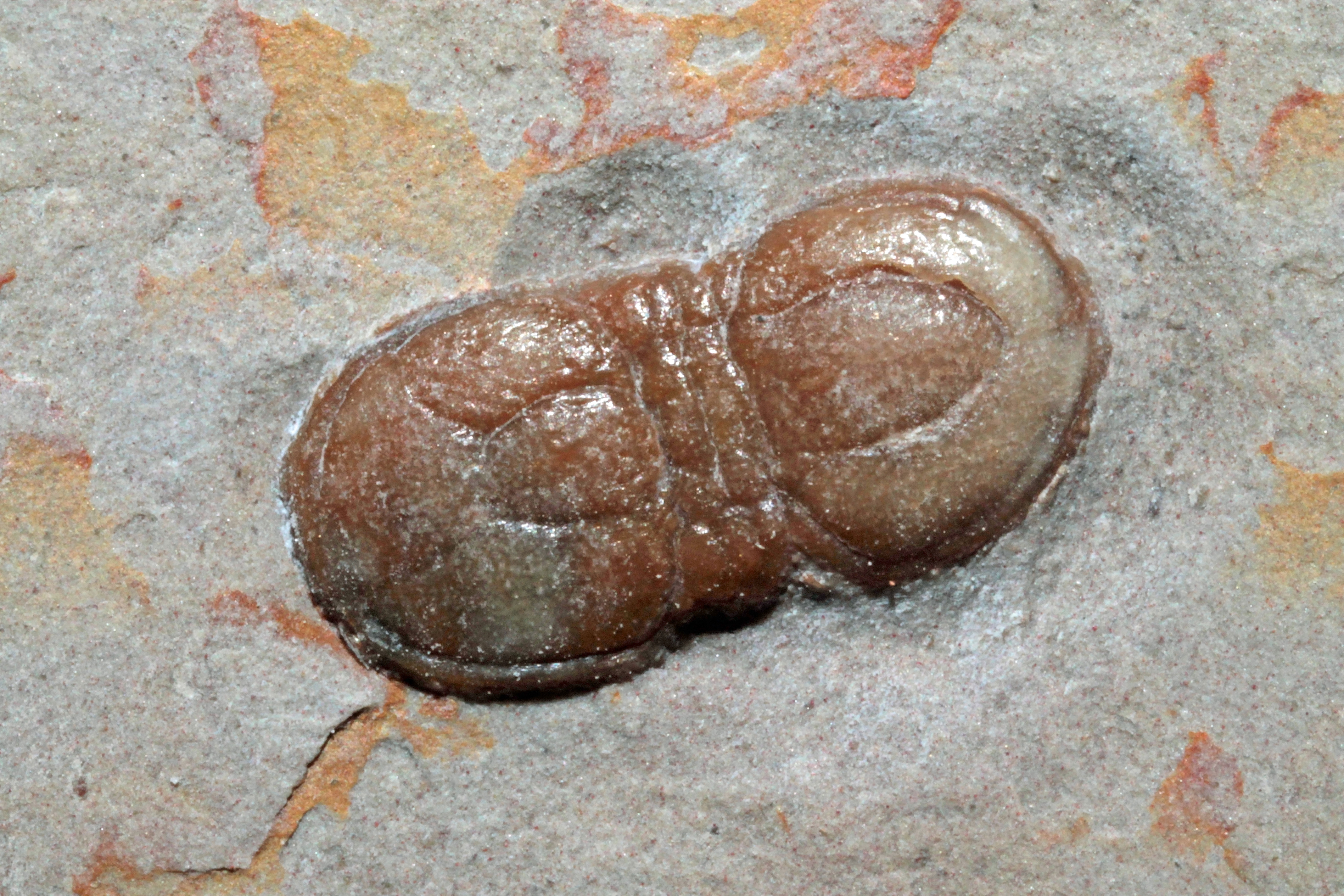 Hypagnostus parvifrons (Linnarson, 1869) : House Range, Marjum Formation, Middle Cambrian period, Utah, USA